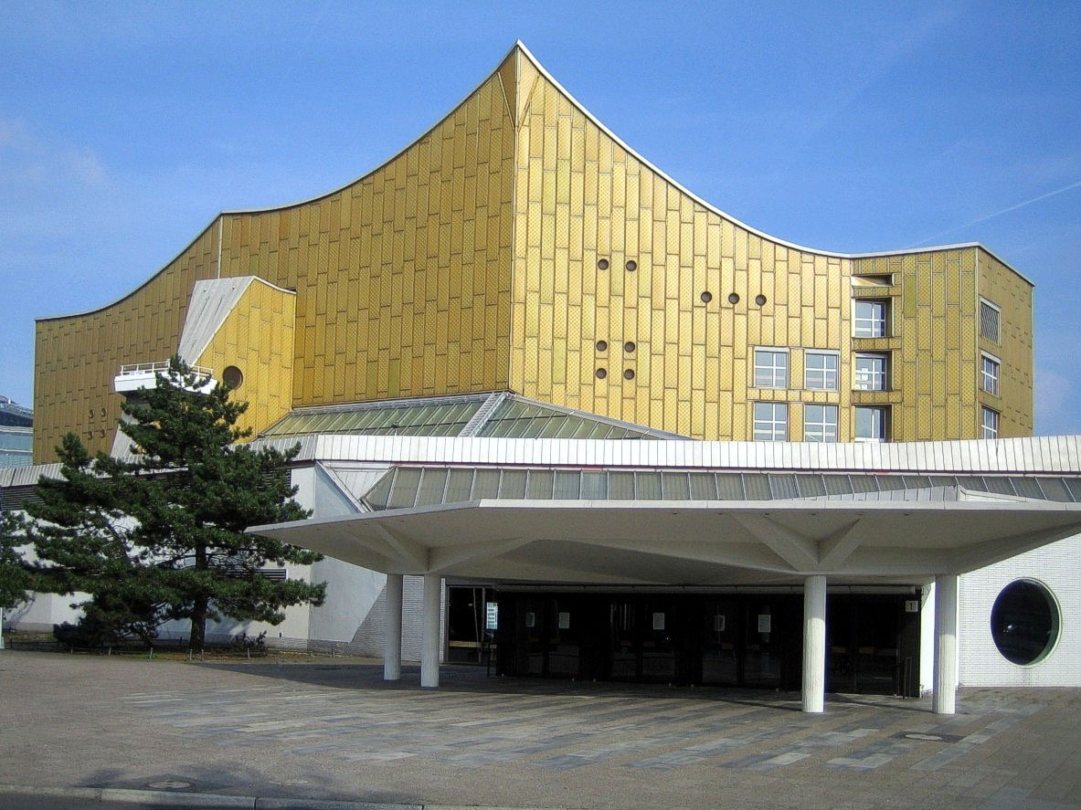 The "Philharmonie" in Berlin, main entrance.